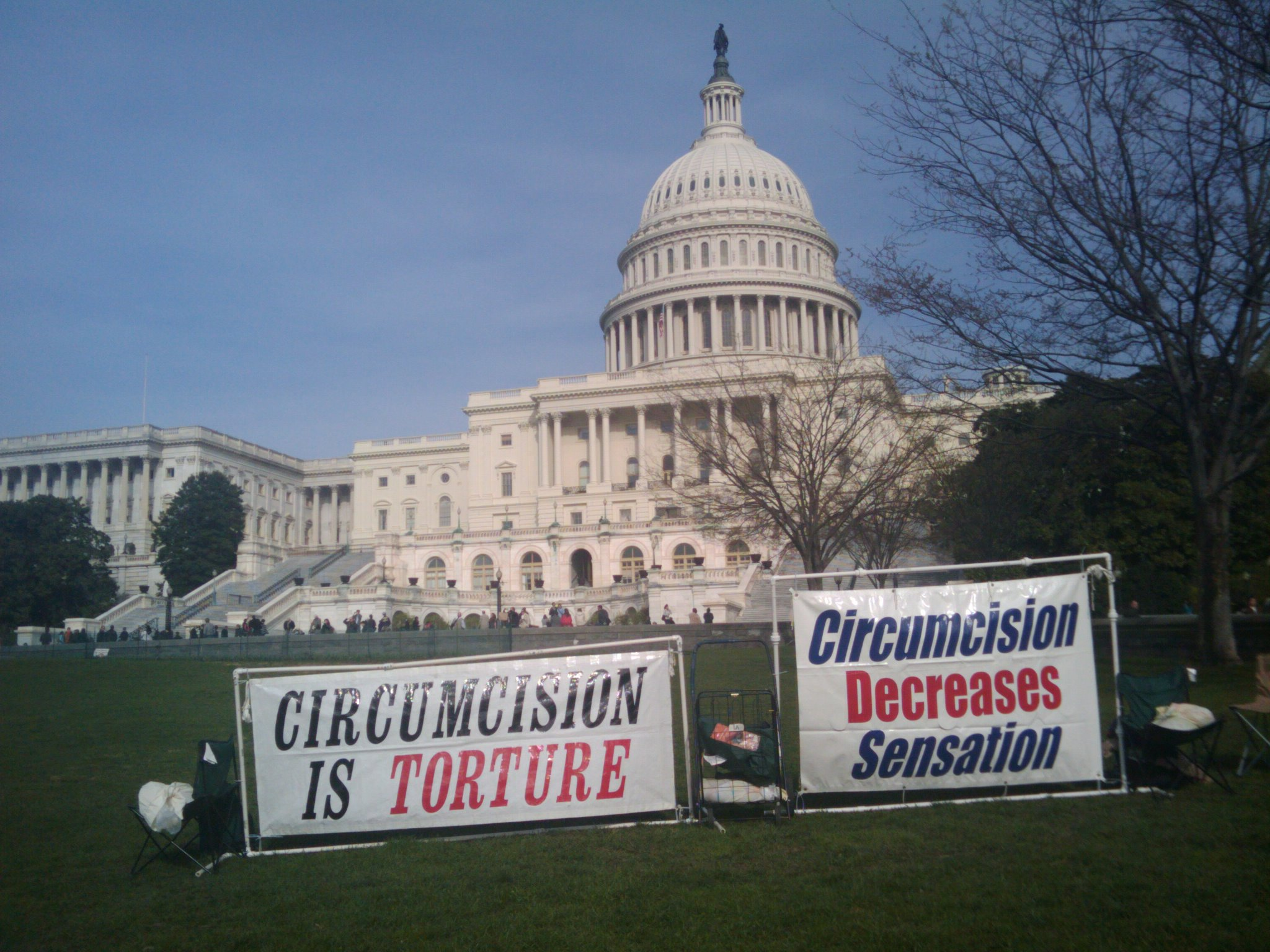 Anti-circumcision banners in front of the U.S. Capitol in Washington, DC